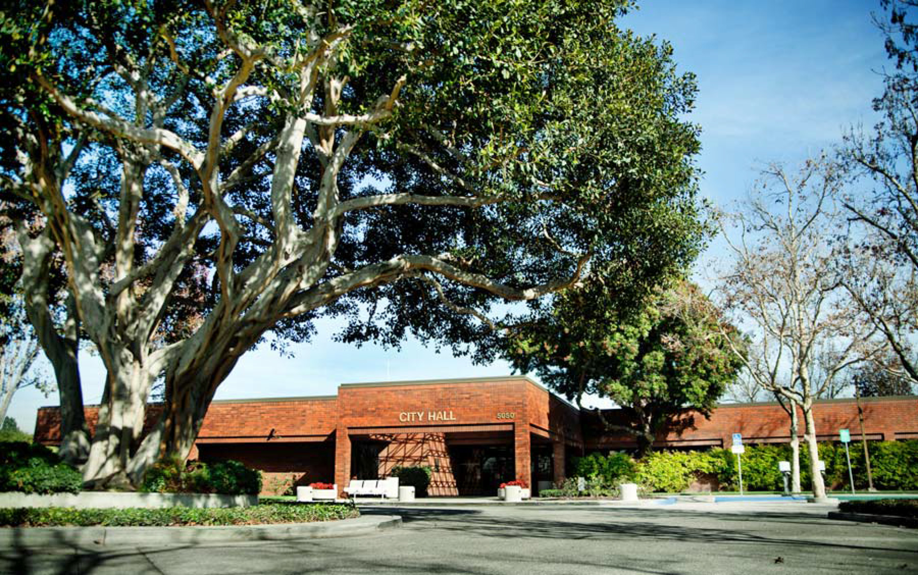 Lakewood City Hall entrance